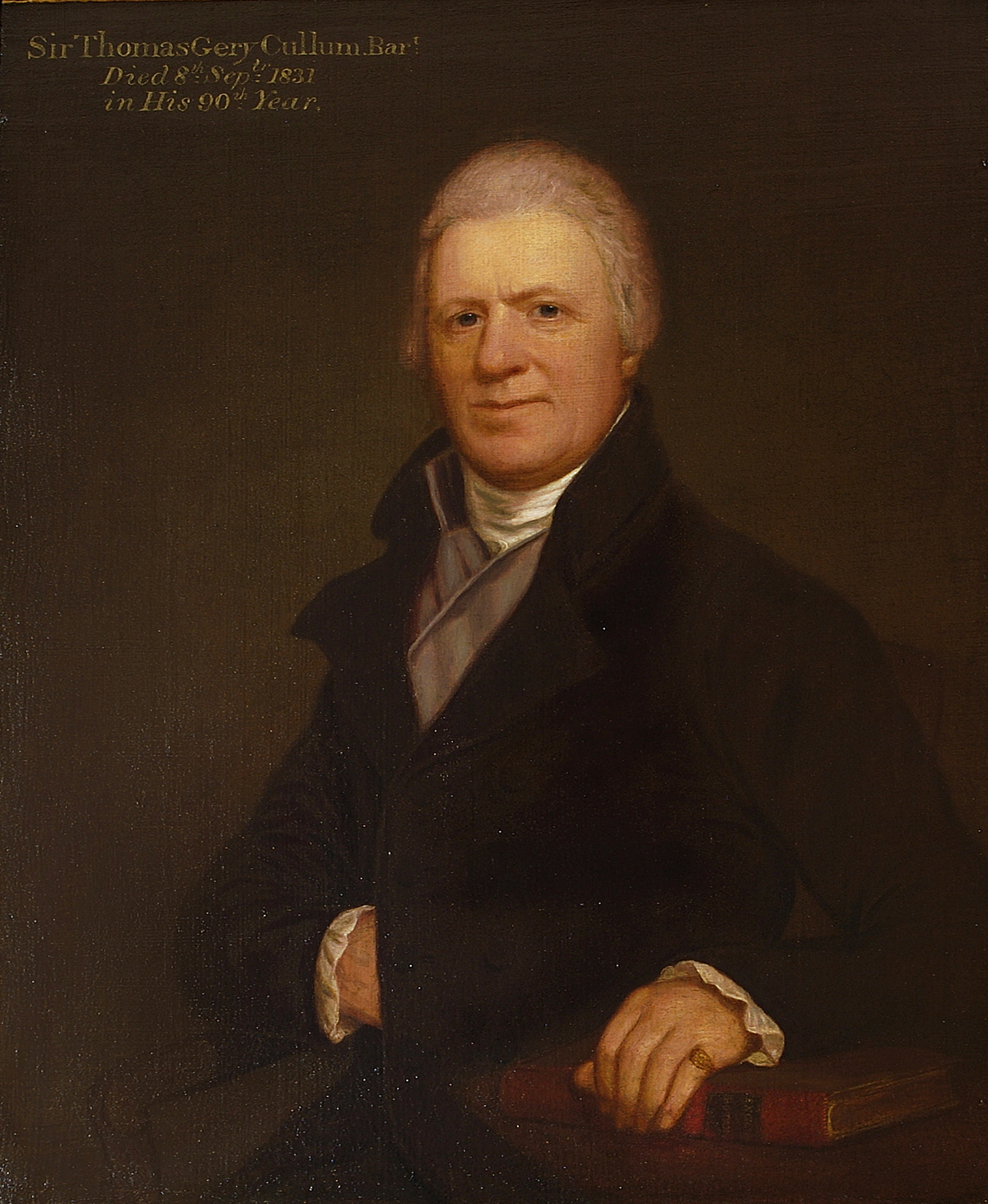 Portrait of Sir Thomas Gery Cullum (1741–1831), 6th Bt, surgeon, alderman for Bury St Edmunds and DL for Suffolk. Oil on canvas, 1800, by George Keith Ralph. 75 cm x 62 cm. Courtesy of the collection of St Edmundsbury Museums.